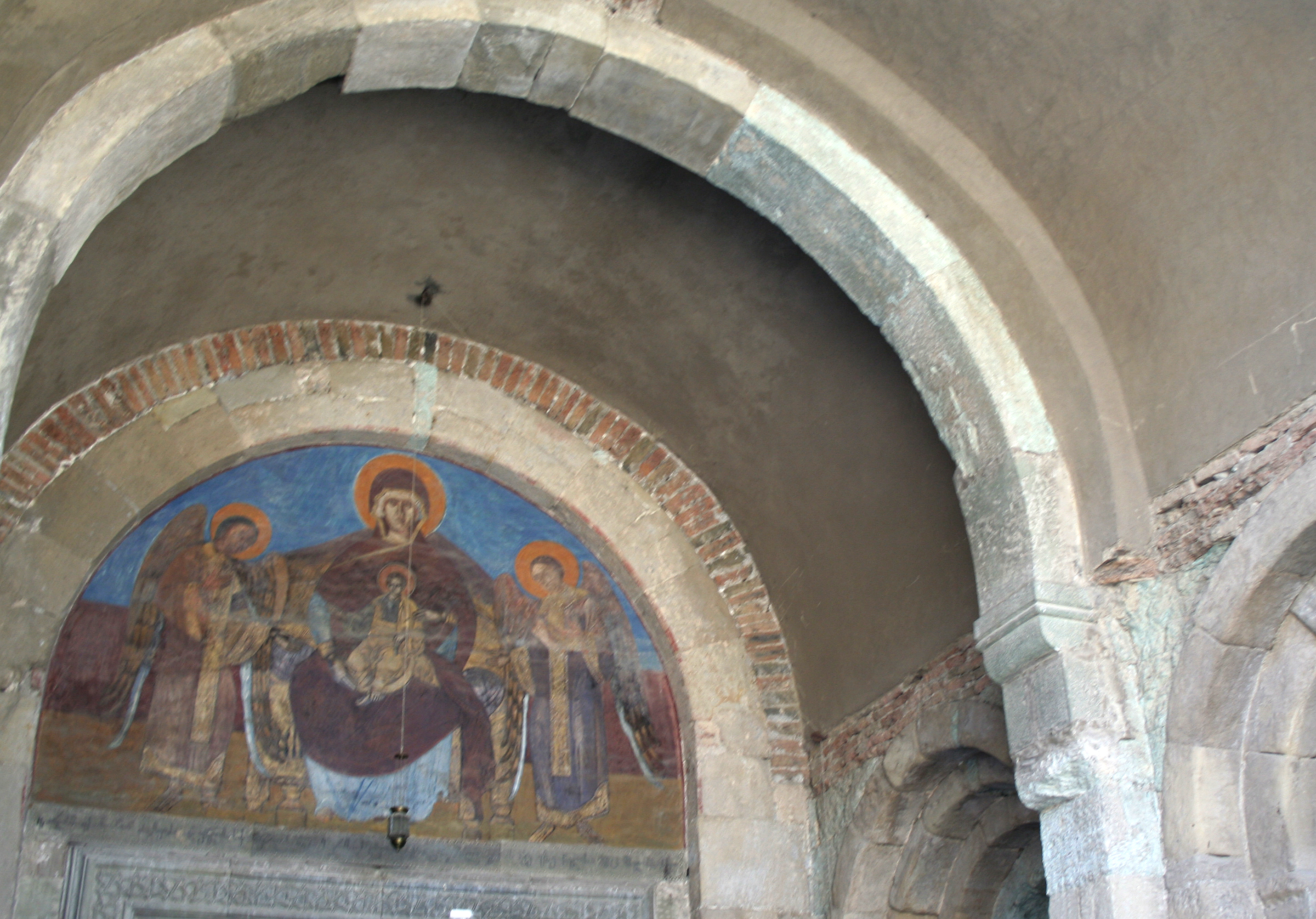 The main church at Mtsketa is currently under restoration. This fresco is at the western entrance.